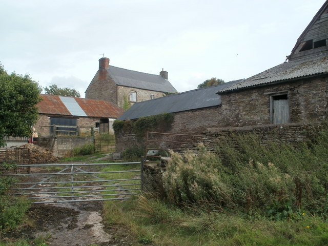 Great House Farm, Llangua, Grosmont, Monmouthshire